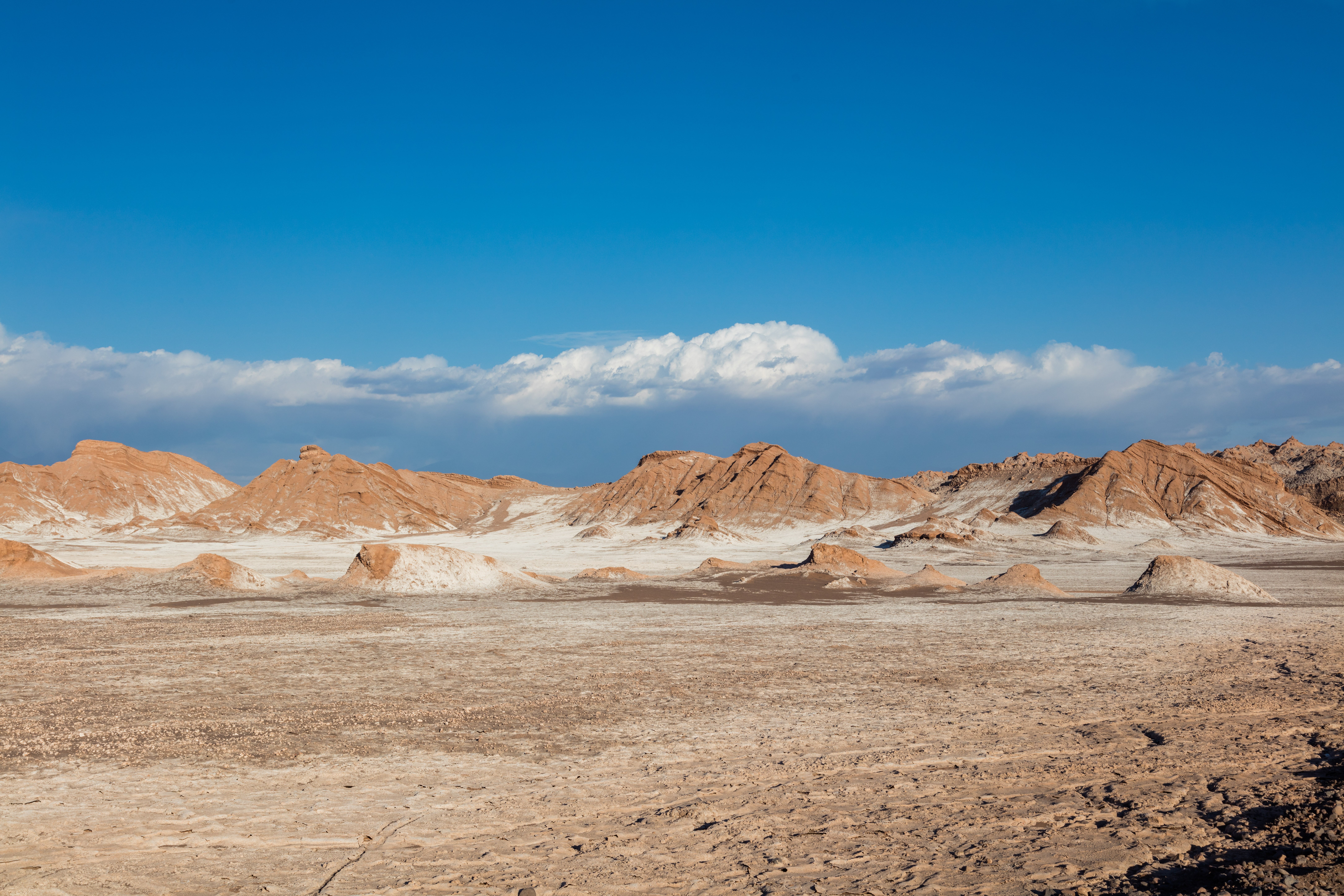 Valle de la Luna, San Pedro de Atacama, Chile